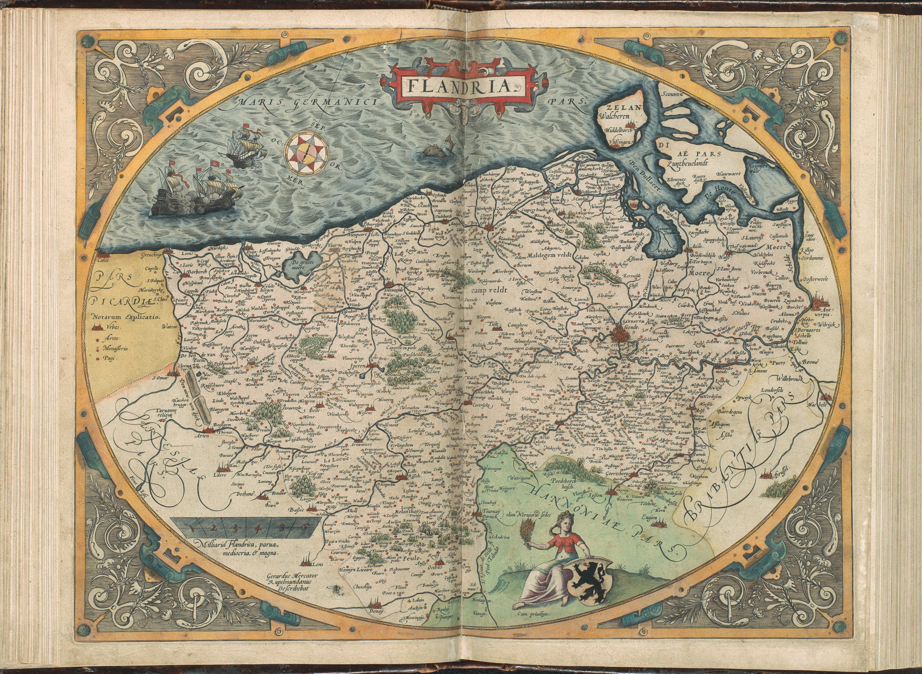 Plate '033av-033br' from the Atlas Ortelius by Abraham Ortelius. Original edition from 1571 with additions from 1573, 1579 and 1584. Complete description of this work (in Dutch) is available here. On this map Flanders is shown.